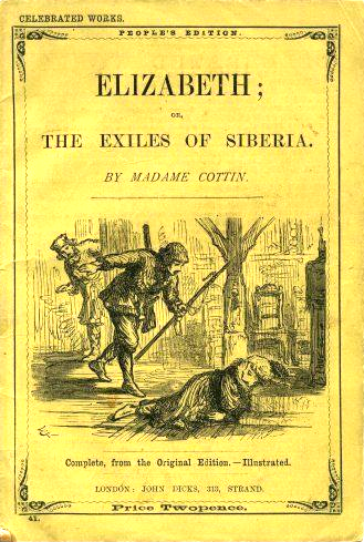 Cover of: "Elizabeth; Or, The Exiles of Siberia. A Tale. From the French" by Sophie Ristaud Cottin (London: John Dicks, circa 188-?) "Celebrated Works--People's Edition."